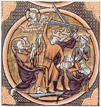 Illustration from a Bible moralisée (BNF MS Latin 11560, f. 6r), dated c. 1234. The text to the left of the image is the beginning of Psalm 16 (Hebrew Psalm 17): "Oratio David. Exaudi, Domine, justitiam meam; intende deprecationem meam" followed by a Christian prayer against Jews "Precatur, Christe, non pro sua utilitate sed pro nostro negocio, quia oratio Christi stabilimentum est fidelium. Orat ergo ut reddatur ei secundum iusticiam suam et ut liberetur ab infidiis iudeorum, et rogat ut deus pater retribuat iudeis nequitiam eorum ut perdant locum et gentem pro quibus retinendis occiderunt Christum". This image has seen some online use as an illustration of the Rhineland Massacres during the First Crusade following its use on the cover of a 2006 book on the topic, Lena Roos, "God Wants It!": The Ideology of Martyrdom in the Hebrew Crusade Chronicles and its Jewish and Christian Background, Medieval Church Studies 6, Turnhout: Brepols Publishers, 2006.